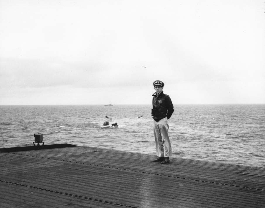 Captain Daniel V. Gallery on aft deck of USS Guadalcanal (CVE-60), U-505 in background, in tow by Guadalcanal